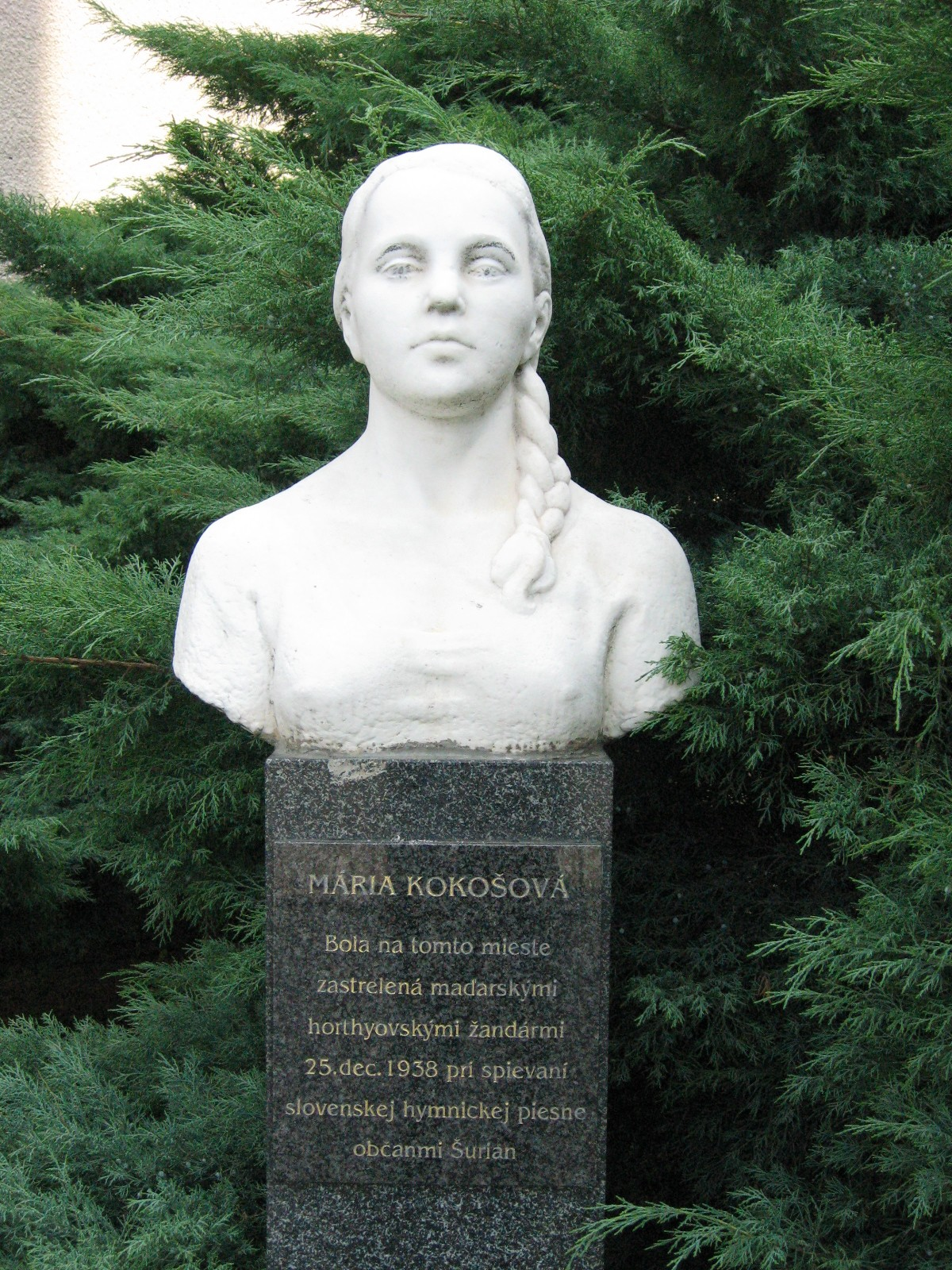 Inscription: "Mária Kokošková was in this place shot by Hungarian Horthy-gendarms on 25th December 1938 during the singing Slovak hymnic song by the inhabitants of Šurany."